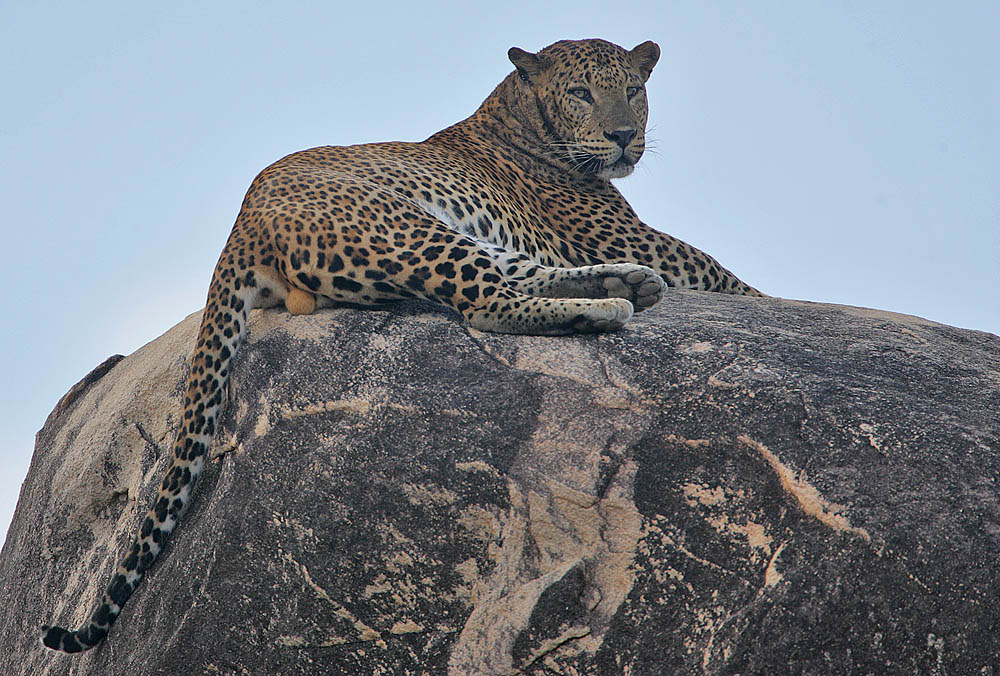 Lord of all he surveys! Leopard at Hambantota, Sri Lanka